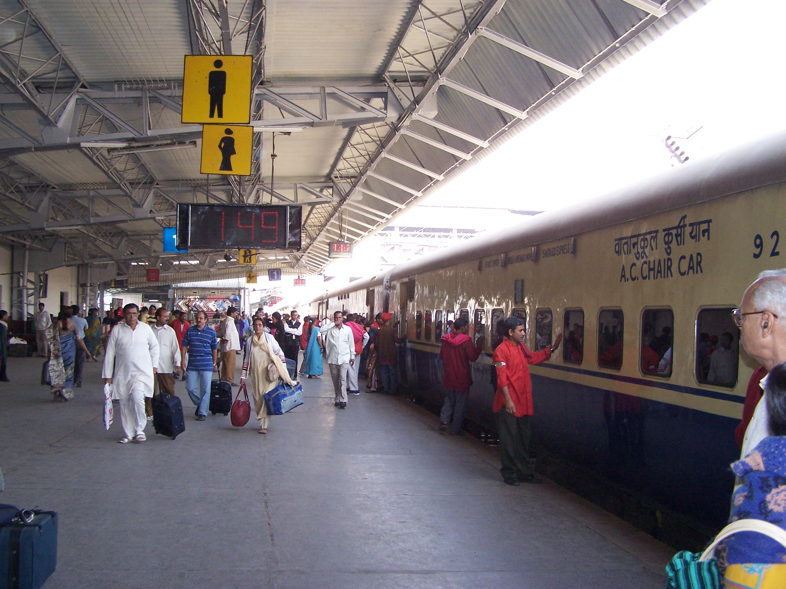 Shatabdi express from Bhopal Habibganj to New Delhi. Photograph taken in December 2005 by SK Desai inside Bhopal Habibganj train station.